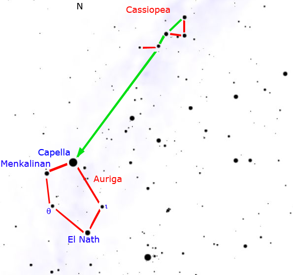 Taken from Perseus, all rights belong to the author who take the screen (as written in Copyright file)